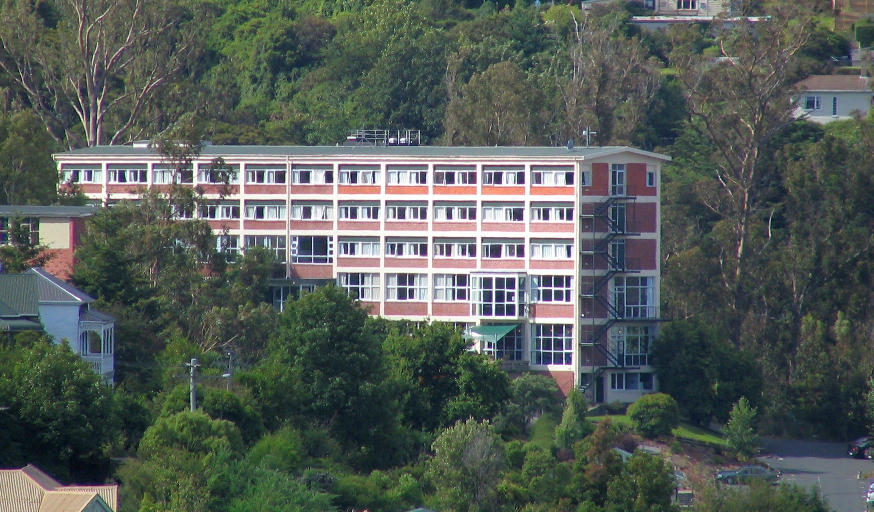 Aquinas College, Dunedin, New Zealand, from Prospect Park.